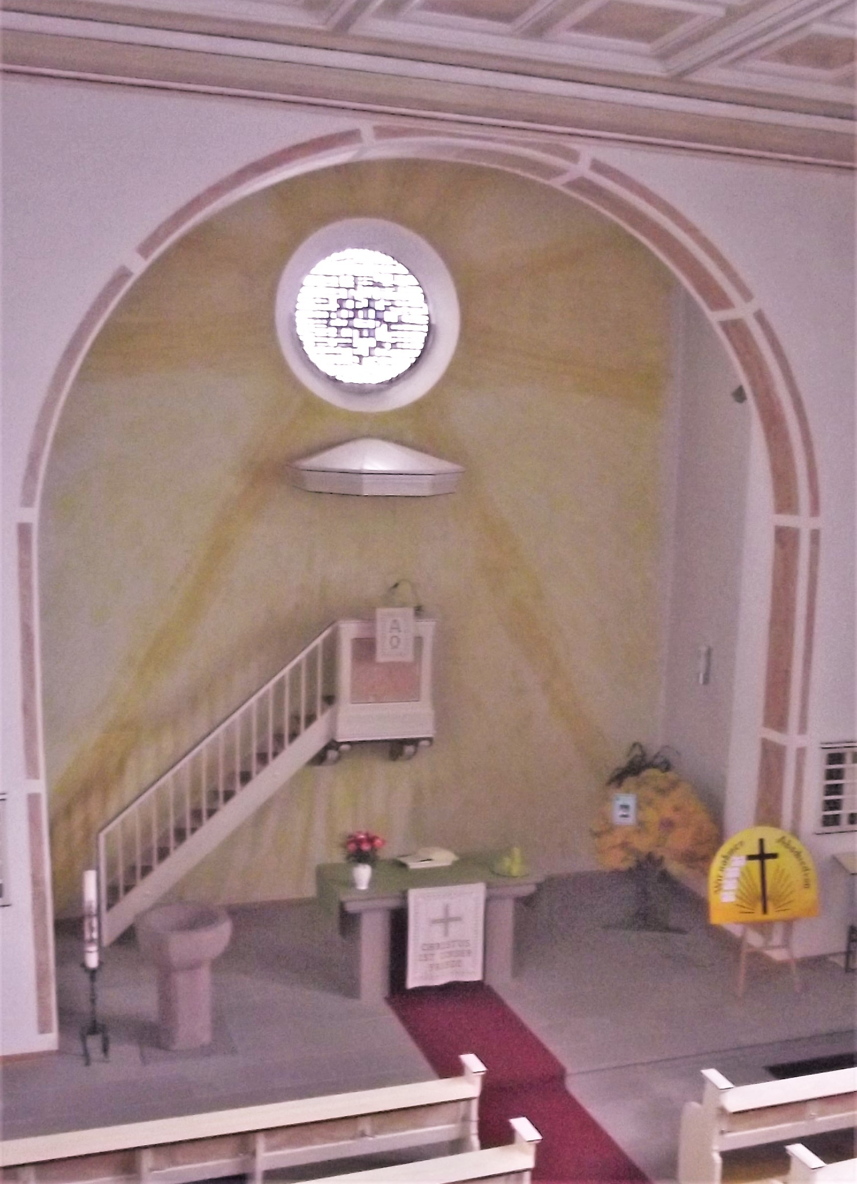 Interior of the protestant church in Hoof, Saarland